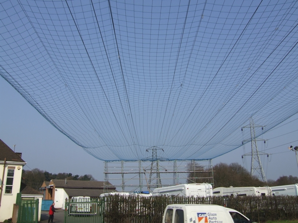 Under the safety net. The pylons on the distribution line are being replaced and the cables are dropped down on to temporary supports where they cross the A460 Cannock Road next to Wescroft American Motorhomes.